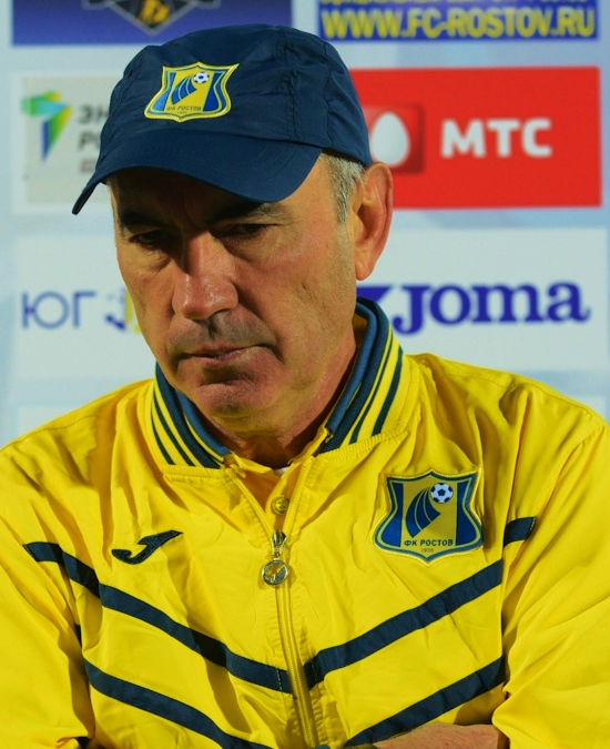 Gurban Berdiýew